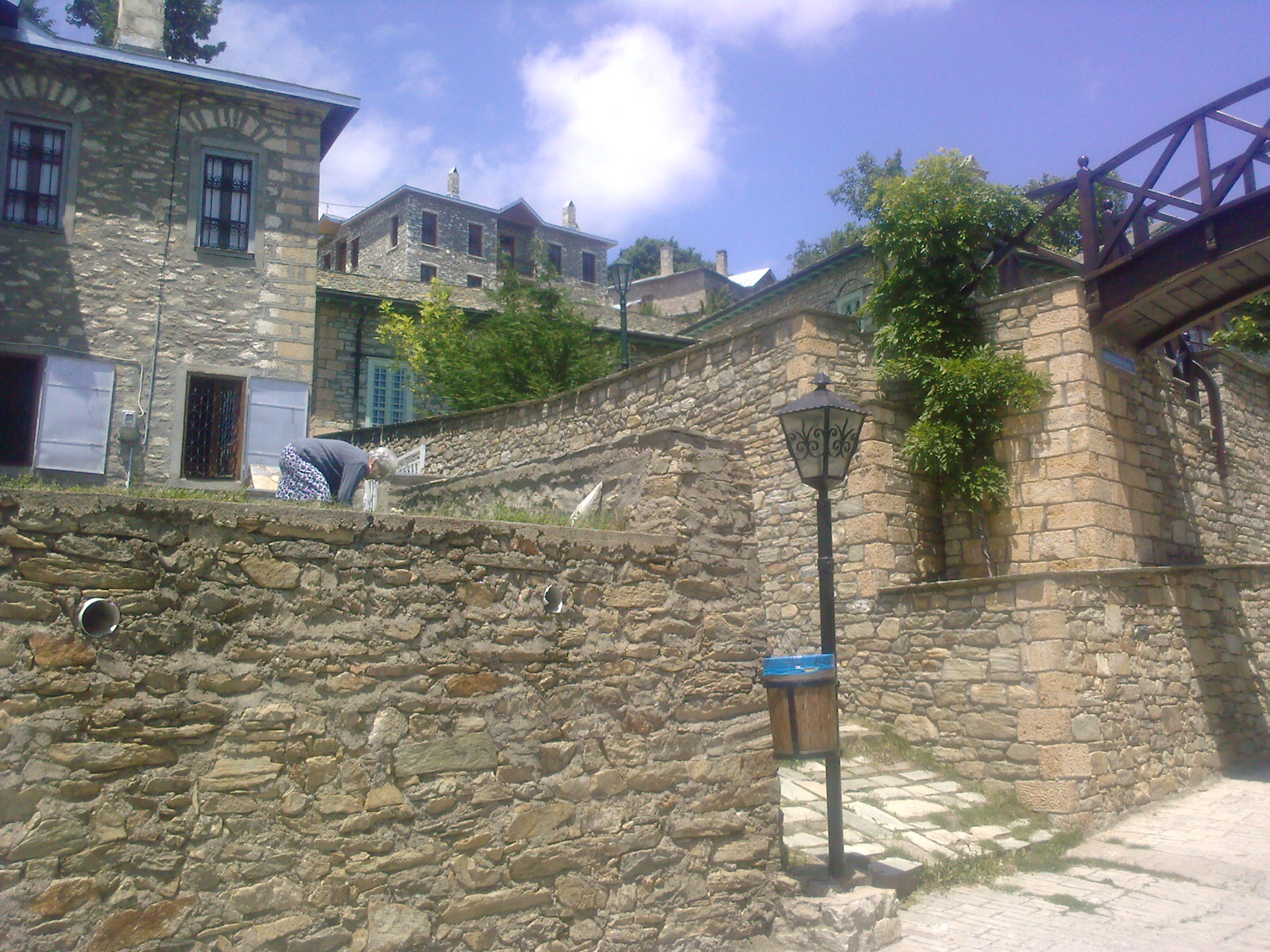 Village of Nimfeo/Neveska/, Aegean Macedonia